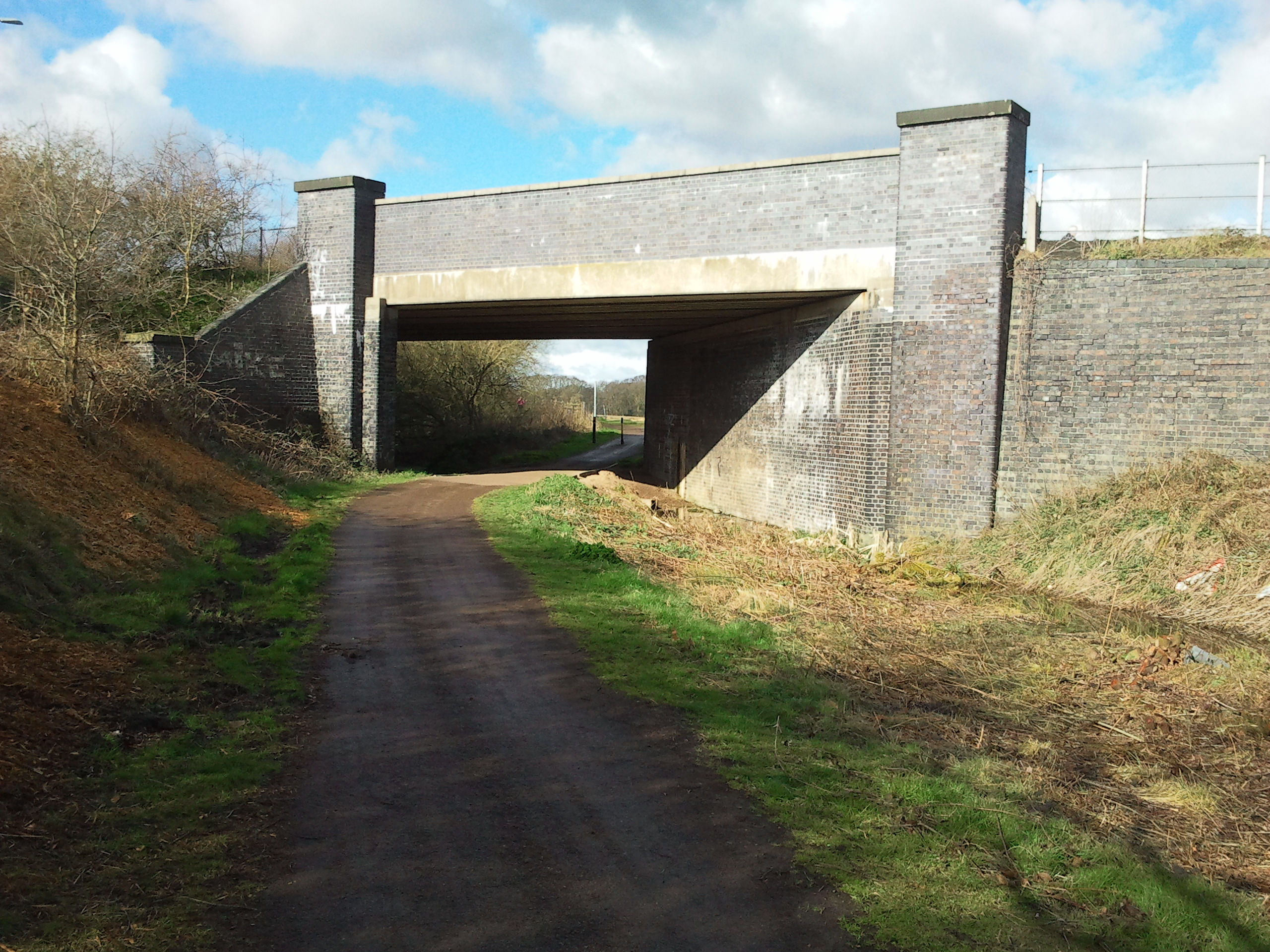 This file shows the underside of Skellingthorpe's railway bridge. It is on the western skirts of the village. The railway line is no longer used.